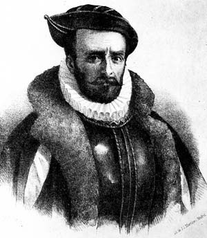 Álvaro de Mendaña y Neira (1541 - 1595), Spanish seaman and explorer